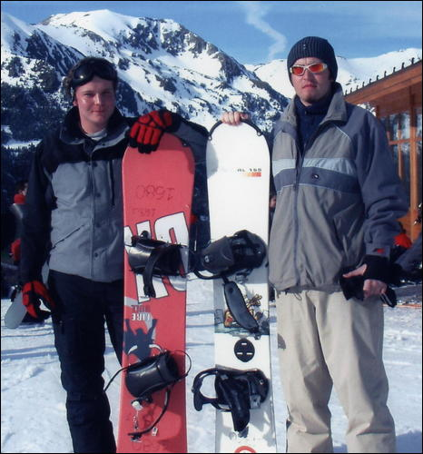 picture of two Irish snowboarders